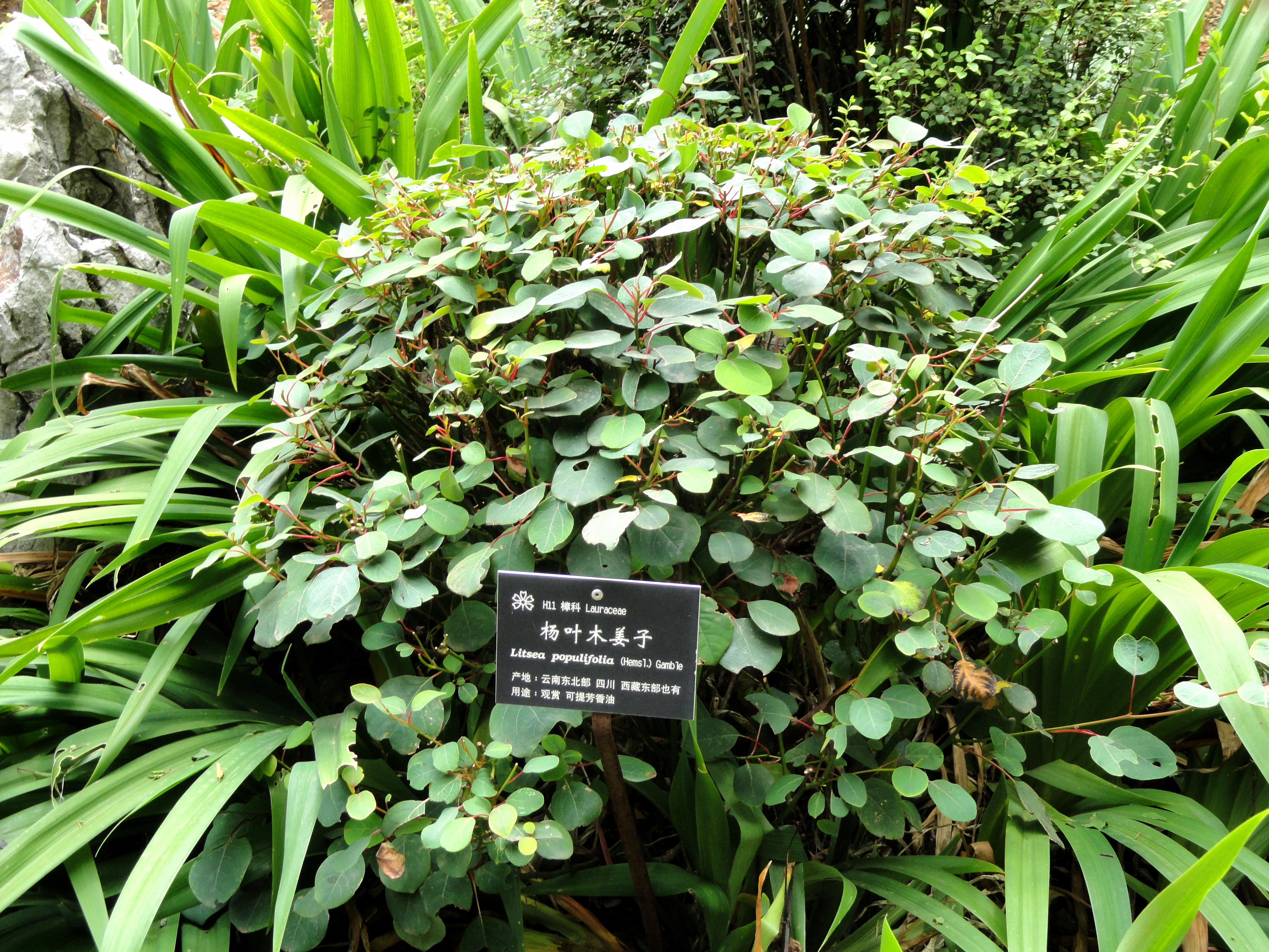 Plant specimen in the Kunming Botanical Garden, Kunming, Yunnan, China.